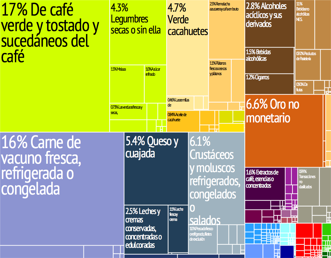 Representación gráfica de los productos de exportación del país en 28 categorías codificadas por color. Cada recuadro de color representa un producto y su tamaño es proporcional a la participación que ese producto representa dentro del total de las exportaciones del país.